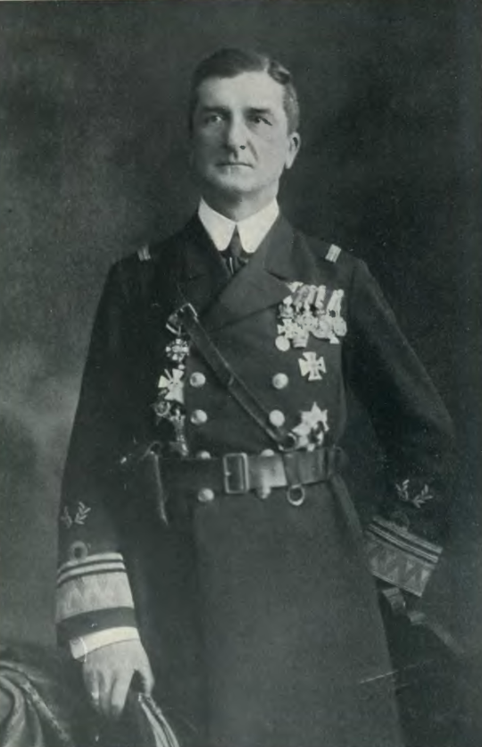 Austro-hungarian admiral, later Hungarian Regent, Miklós Horthy.